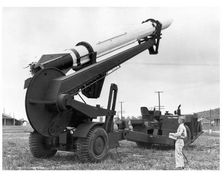 MGM-5 Corporal at White Sands Missile Range.